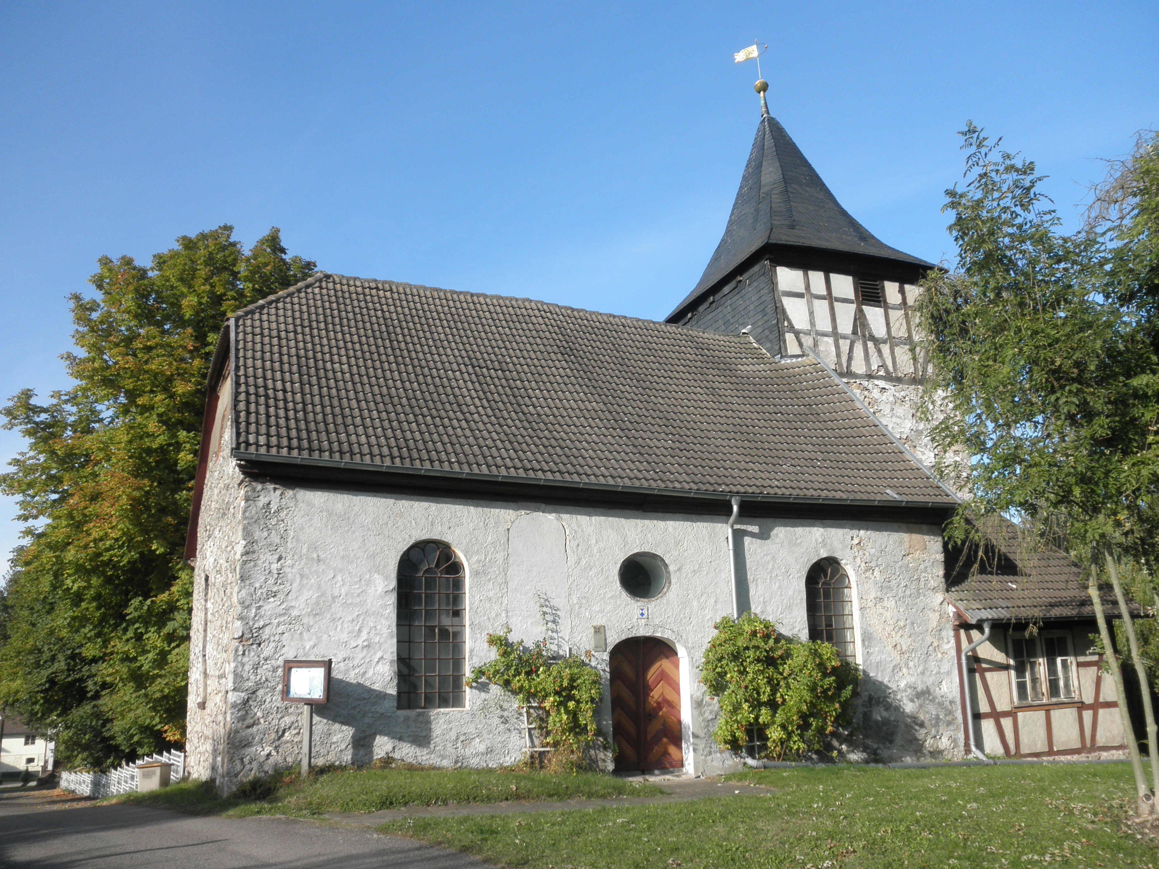 Church in Mauderode (Werther) in Thuringia